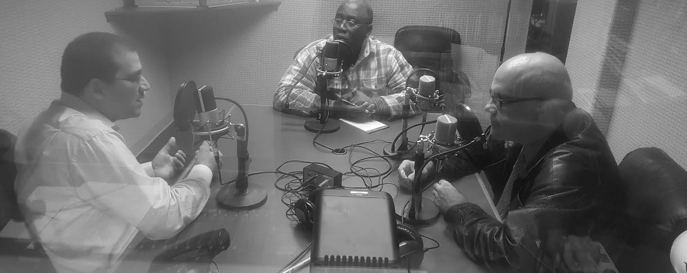 Antonio Rodiles, Jorge Luis Garcia Perez "Antunez and Dr. Orlando Gutierrez Boronat